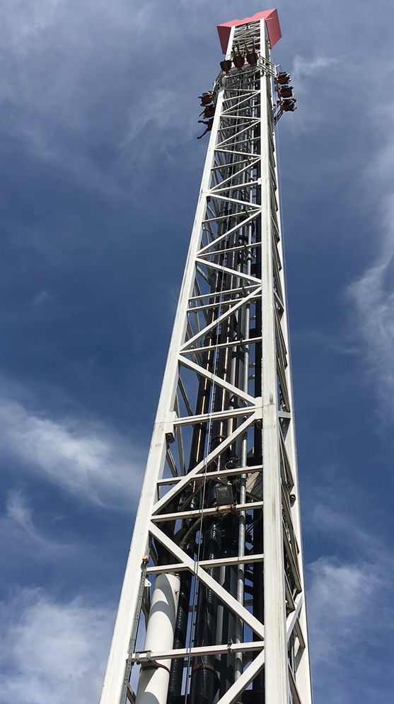 SkunX Tower from Walibi Rhône-Alpes